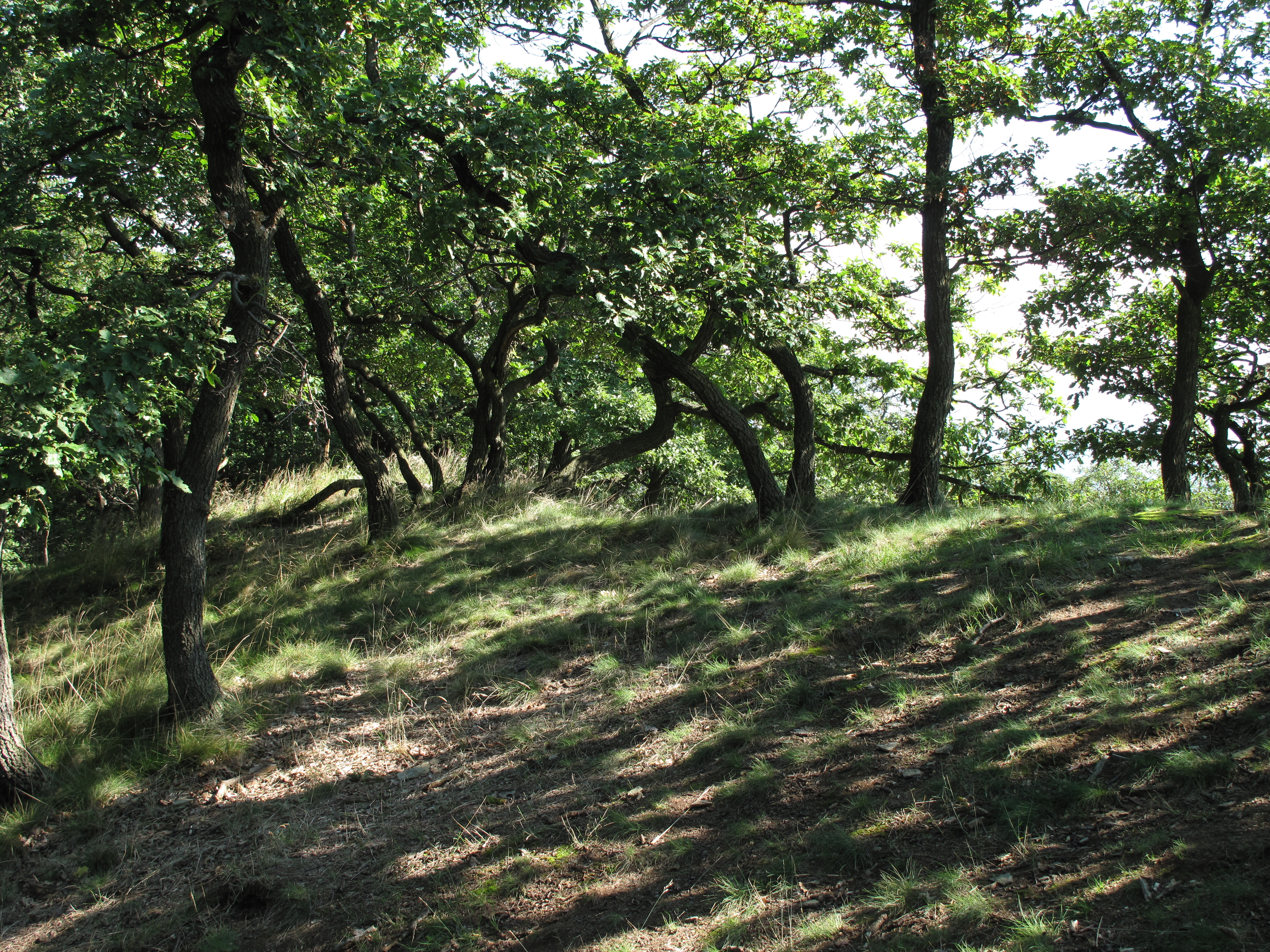 Oak forest in the surroundings of Kybička, Litoměřice District, Czech Republic.